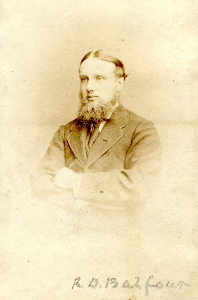 Robert Drummond Balfour, c1872 from original held in the Marylebone Cricket Club Library